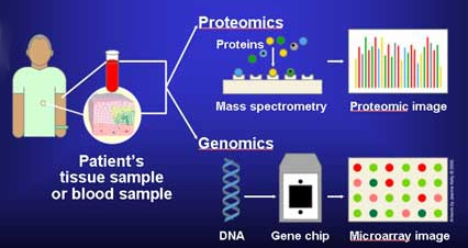 (from ) Before molecular diagnostics, clinicians categorized cancer cells according to their pathology, that is, according to their appearance under a microscope. Borrowing from two new disciplines, genomics (gee-no-micks) and proteomics (proh-tee-oh-mics), molecular diagnostics categorizes cancer using technology such as mass spectrometry and gene chips. Genomics is the study of all the genes in a cell or organism, while proteomics is the study of all the proteins. Molecular diagnostics determines how these genes and proteins are interacting in a cell. It focuses upon patterns--gene and protein activity patterns--in different types of cancerous or precancerous cells. Molecular diagnostics uncovers these sets of changes and captures this information as expression patterns. Also called "molecular signatures," these expression patterns are improving the clinicians' ability to diagnose cancer. Soon all cancers may be diagnosed this way.